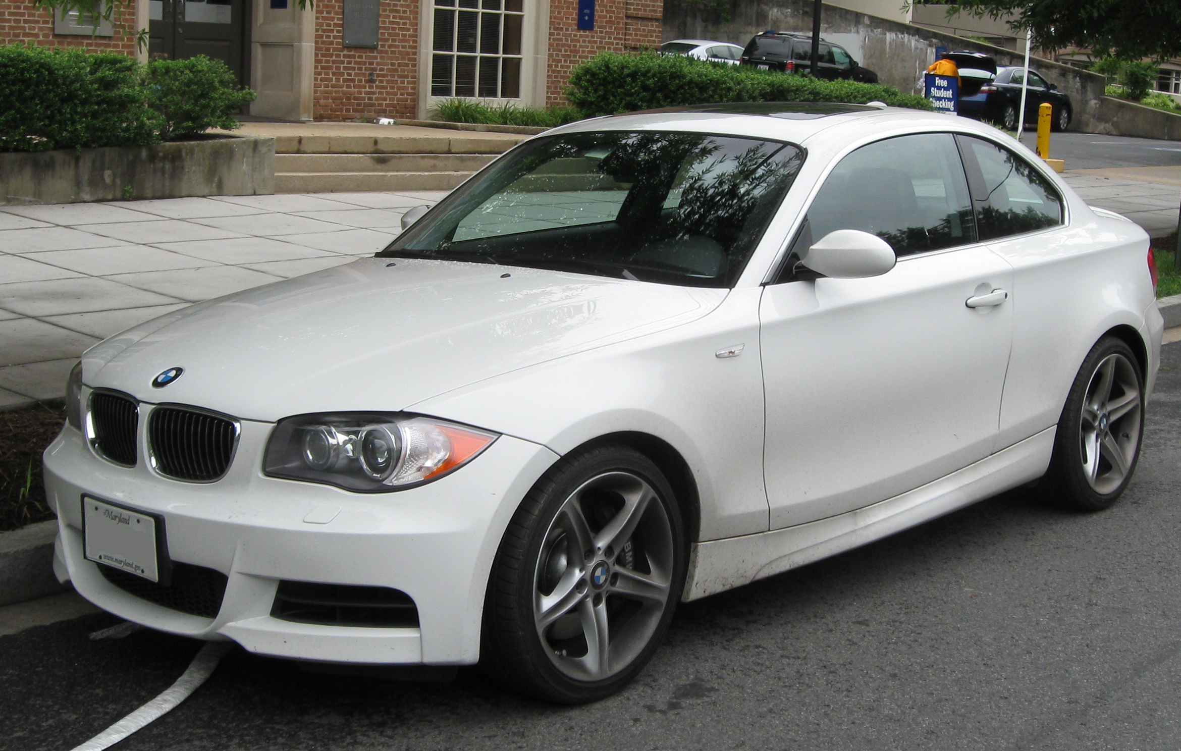 2008-2009 BMW 135i photographed in Washington, D.C., USA.